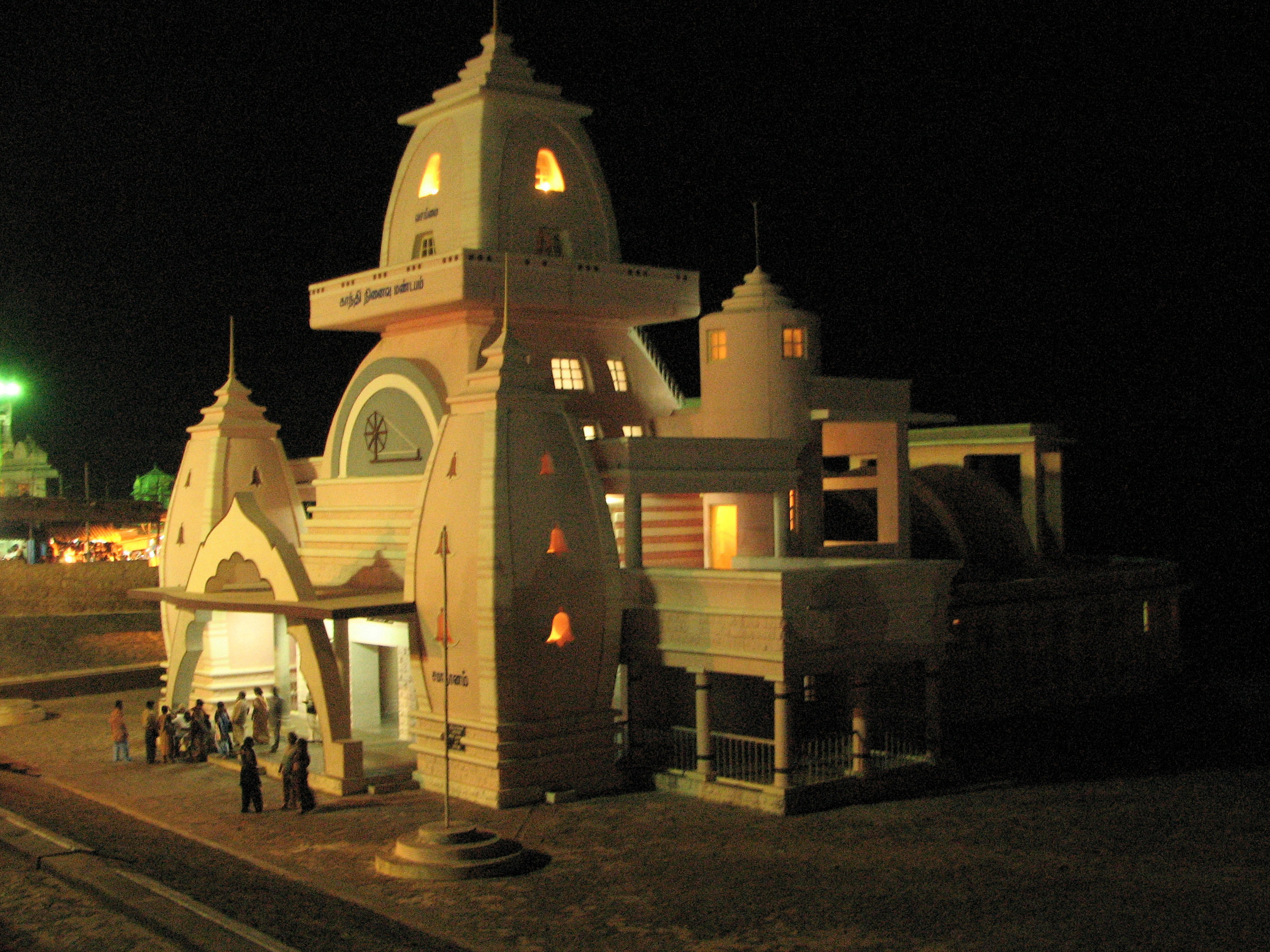 self-made image ; Author's Name : Infocaster